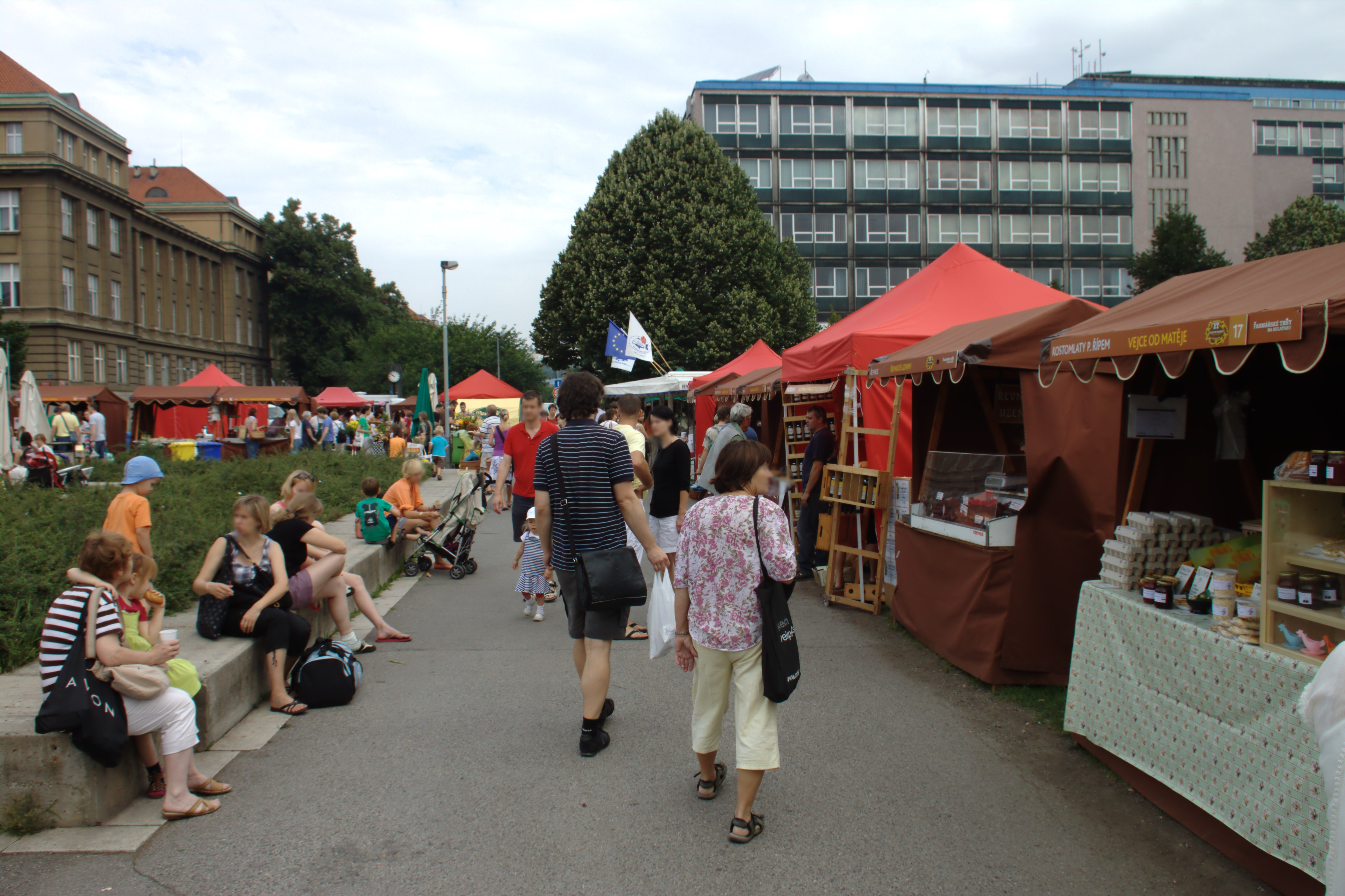 So-called "Farm-markets" in Prague-Dejvice. Various groceries are sold by original producers right on the place. Prague, CZ